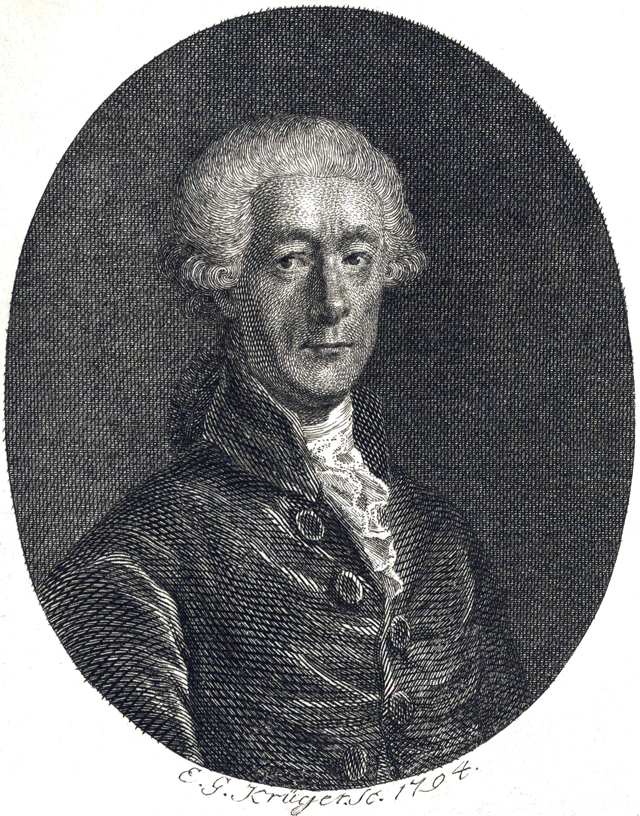 Johann Ludwig von Eckardt (1737-1800) german legal Scholar